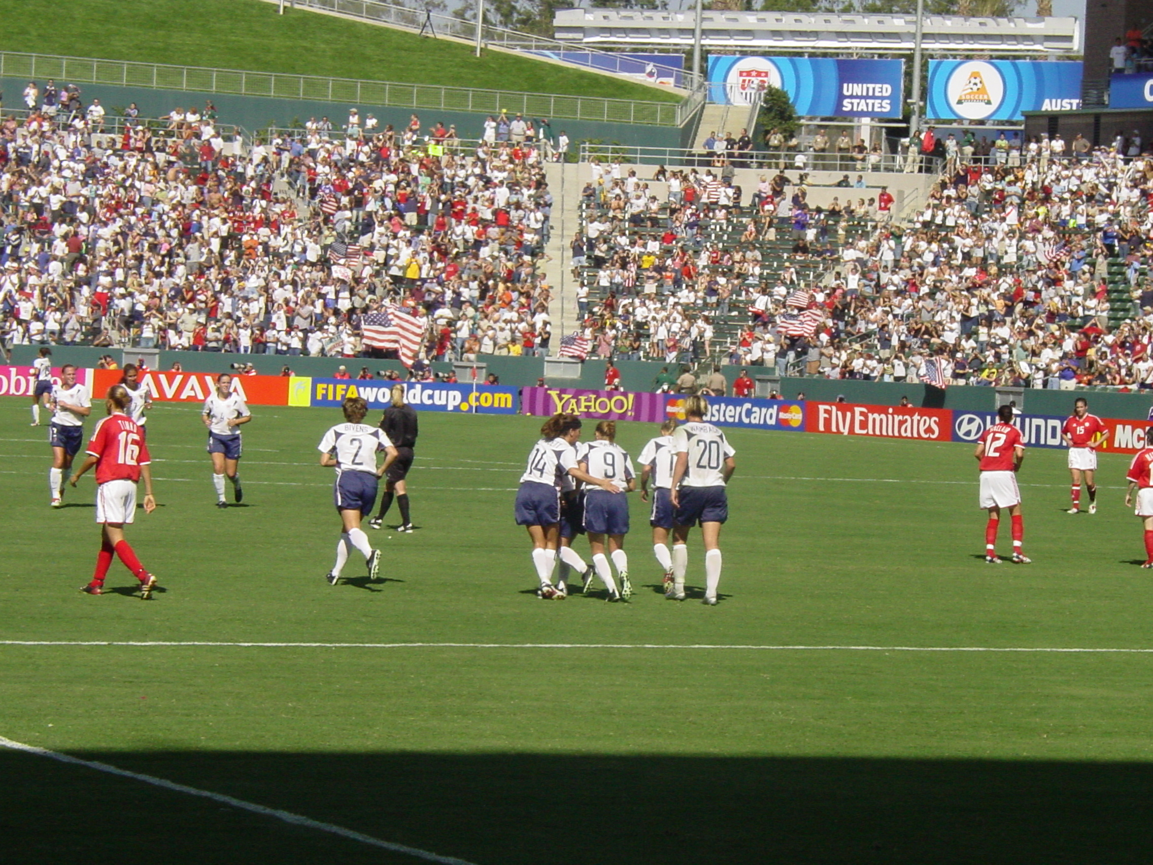 Match between United States and Canada in the FIFA Women's World Cup 2003